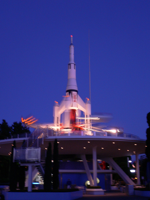 Star Jets (Astro Orbitor)